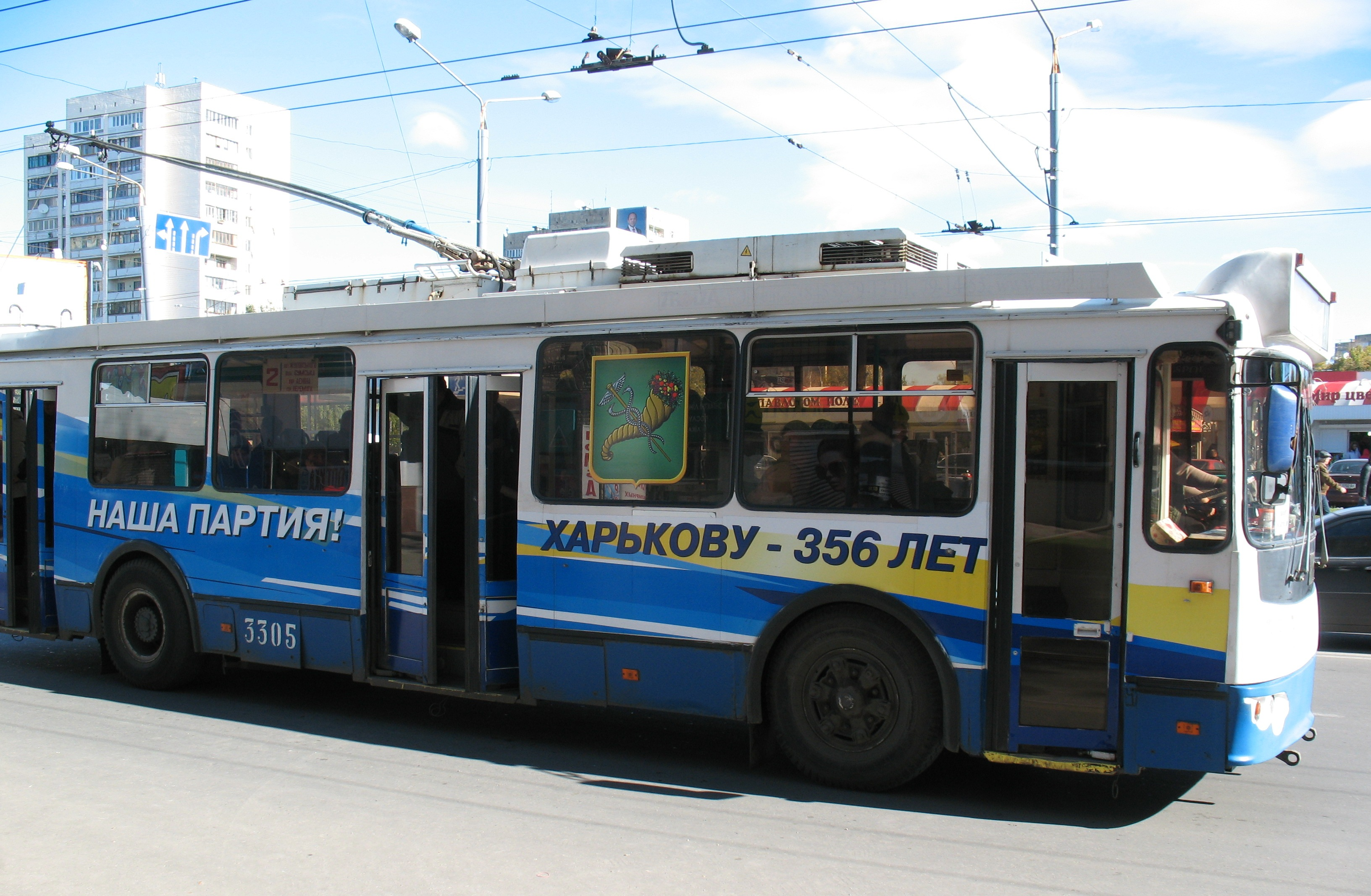 Kharkov City. Kharkov trolleybus "Trolza 3305" #2.